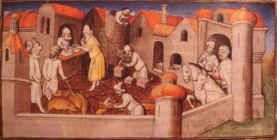 Arrival of Polo brothers to Ayas. Le Livre des Merveille